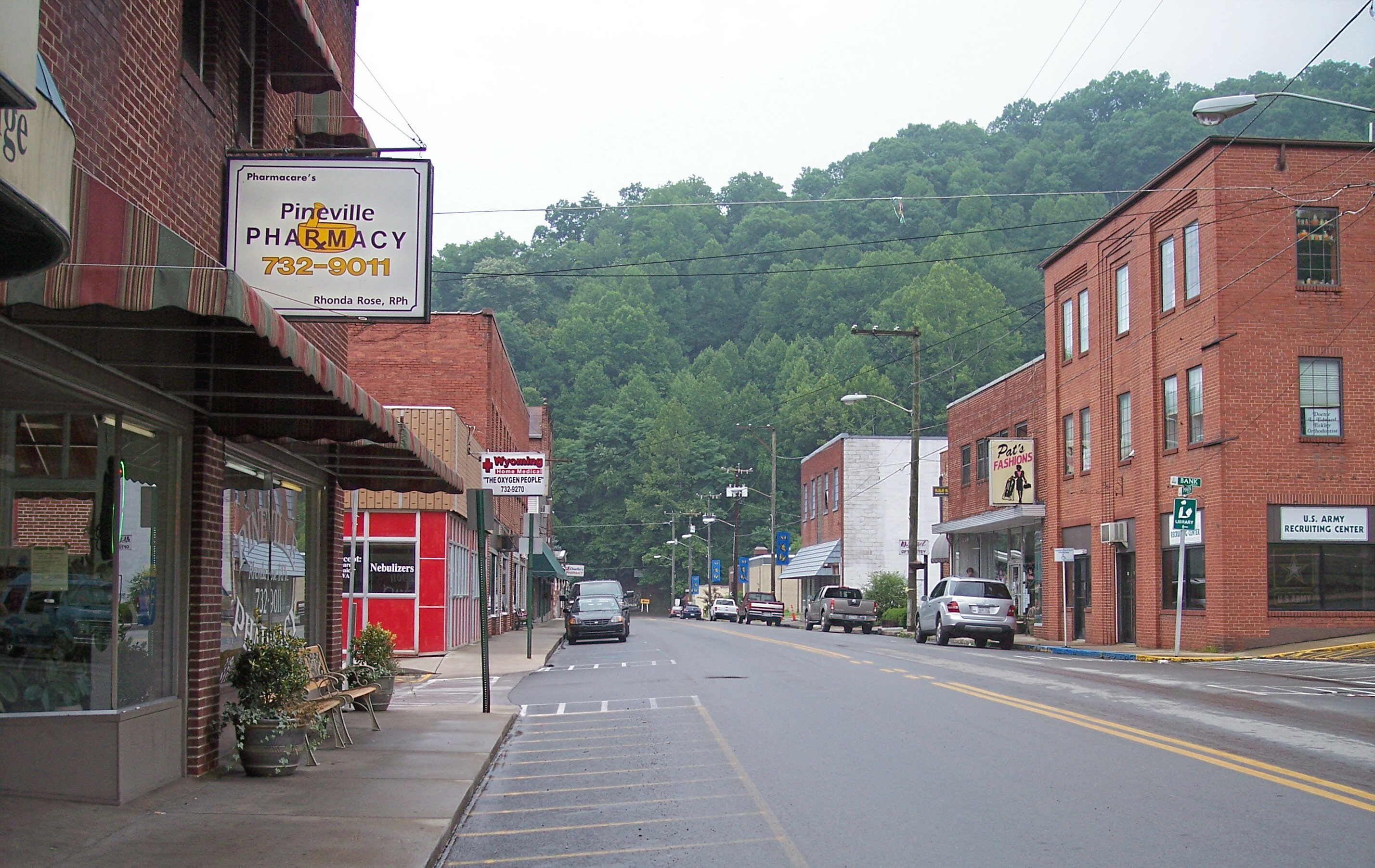 Main Avenue (West Virginia Route 97) in Pineville, West Virginia